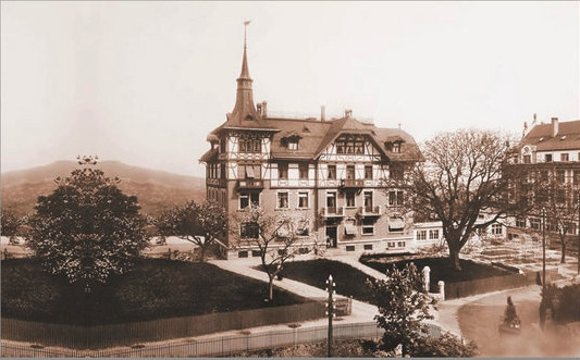 Instituts auf dem Rosenberg Main Building Historic